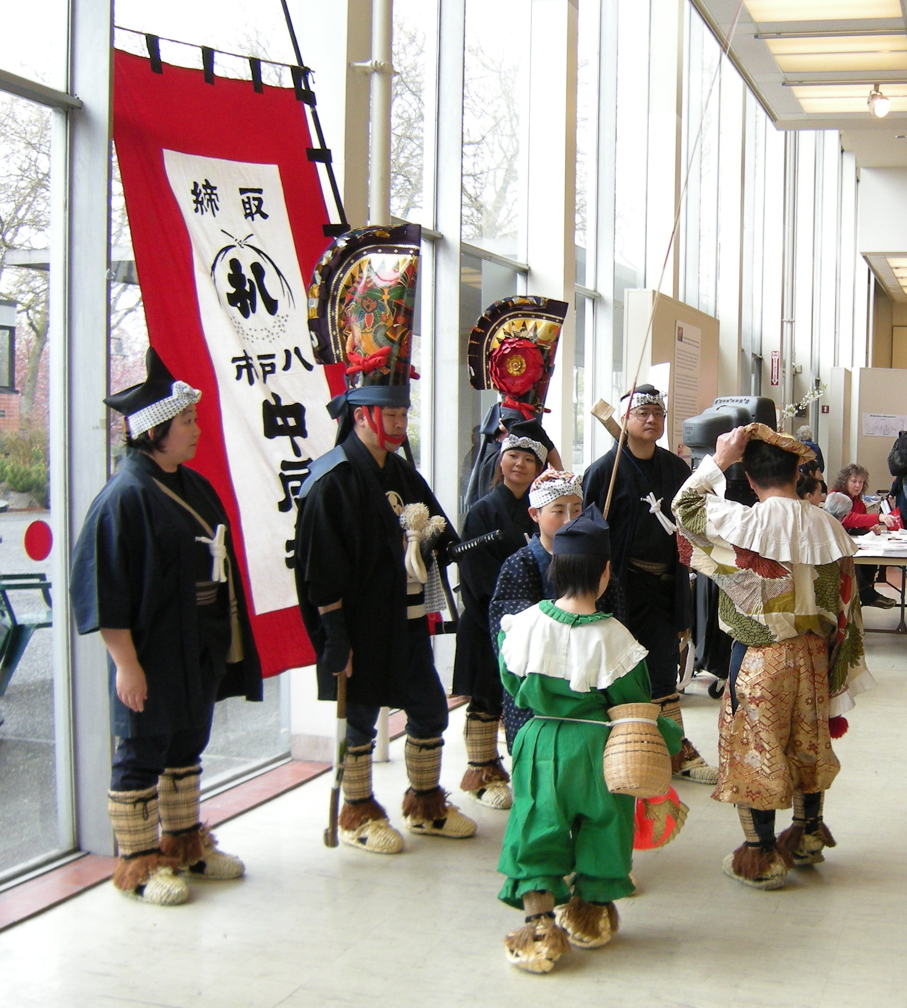 Hachinohe Enburi at Seattle Center, Seattle, Washington as part of the 2008 Cherry Blossom Festival.